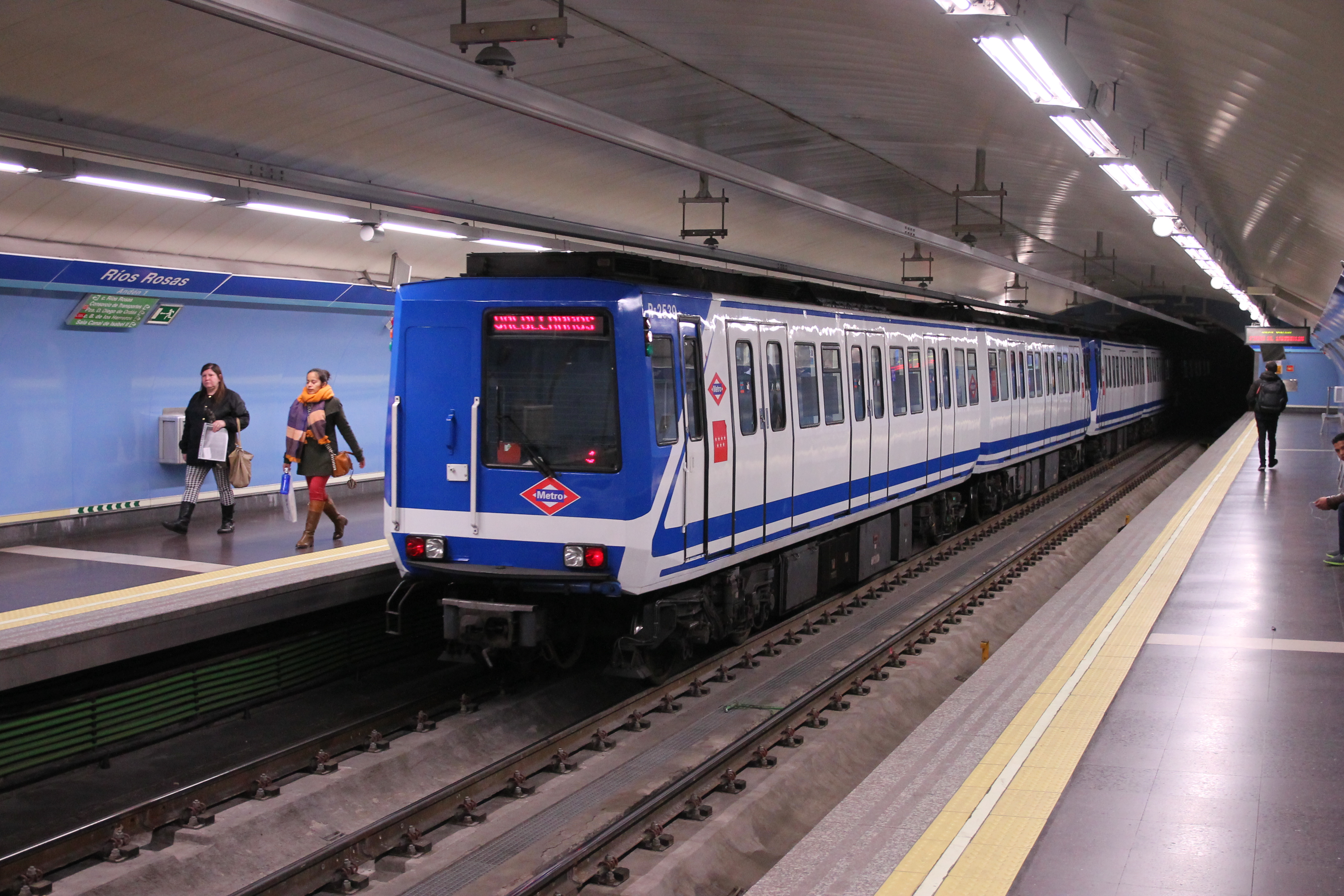 Estación de Ríos Rosas